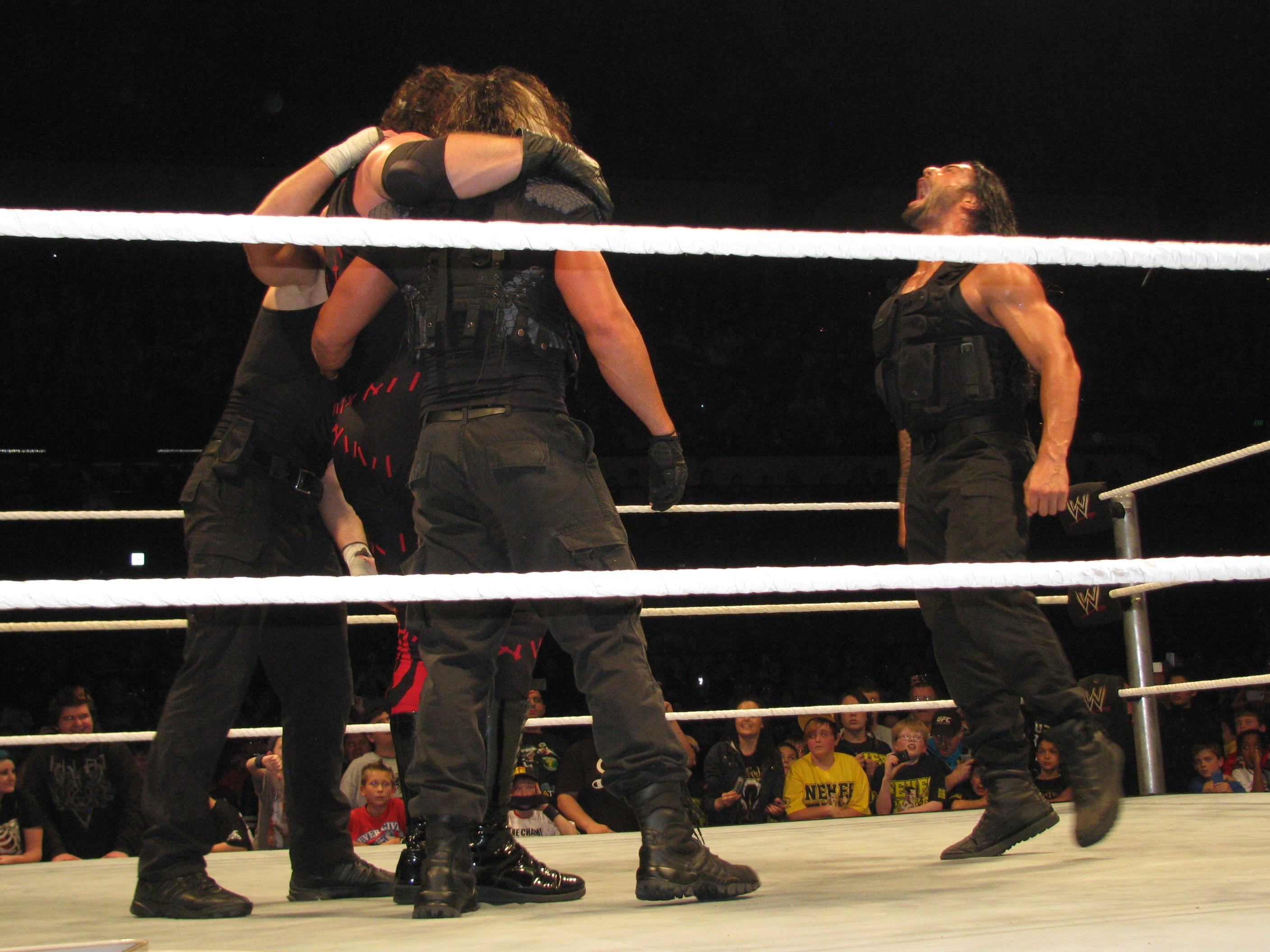 Kane & The Shield @ Adelaide, South Australia WWE house show on the 29th of July '13